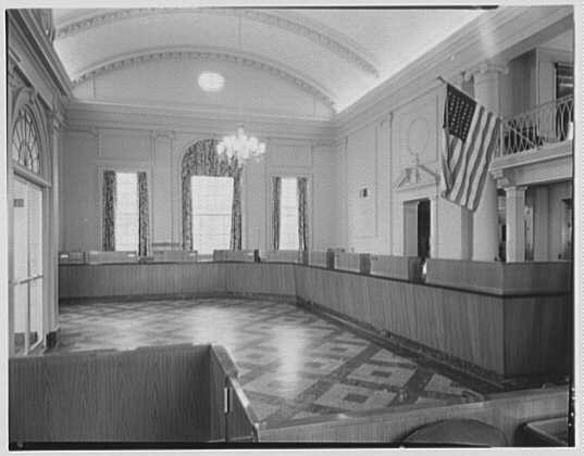 Title: Roslyn Savings Bank, Roslyn, Long Island. Abstract/medium: Gottscho-Schleisner Collection (Library of Congress) Physical description: 1 negative